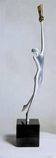 Photo of an "Outie" award.